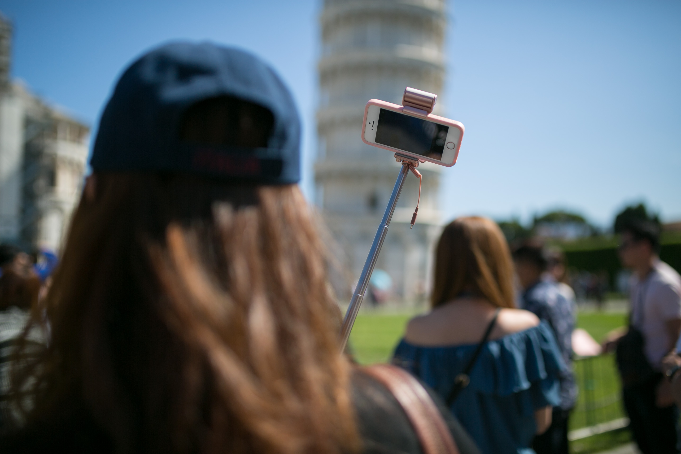 People taking photos at the tower of Pisa